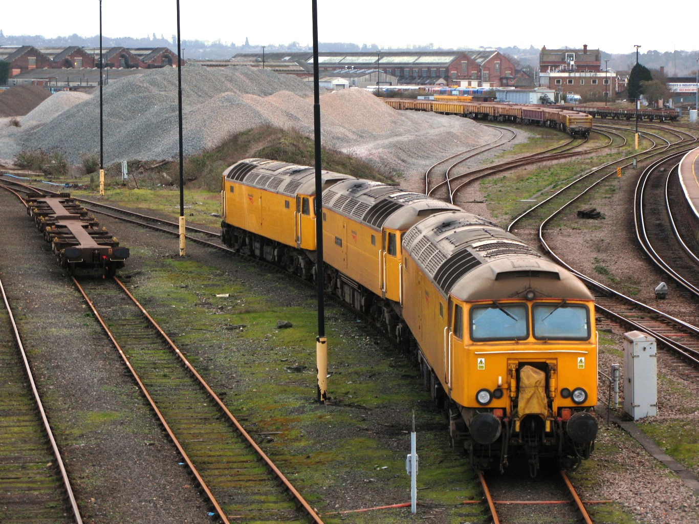 Three Network Rail 'Thunderbird' locomotives at Eastleigh. 57305 is nearest the camera with 57312 and 57310 behind.